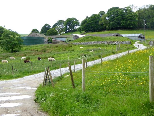 Nether Hesleden Farm